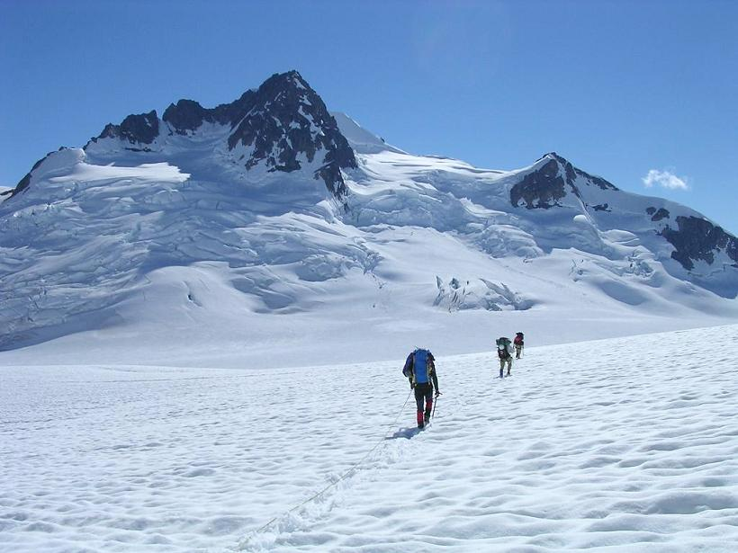 Princess Mountain from the east